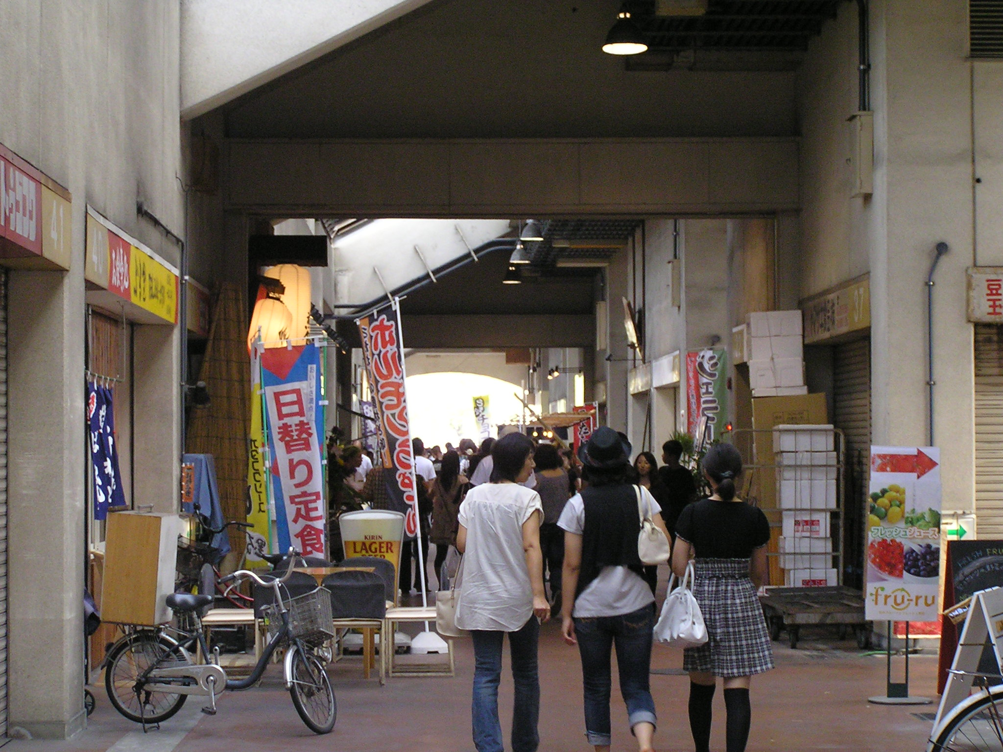 Ffukufuku-tori of Okayama Central Wholesale Market